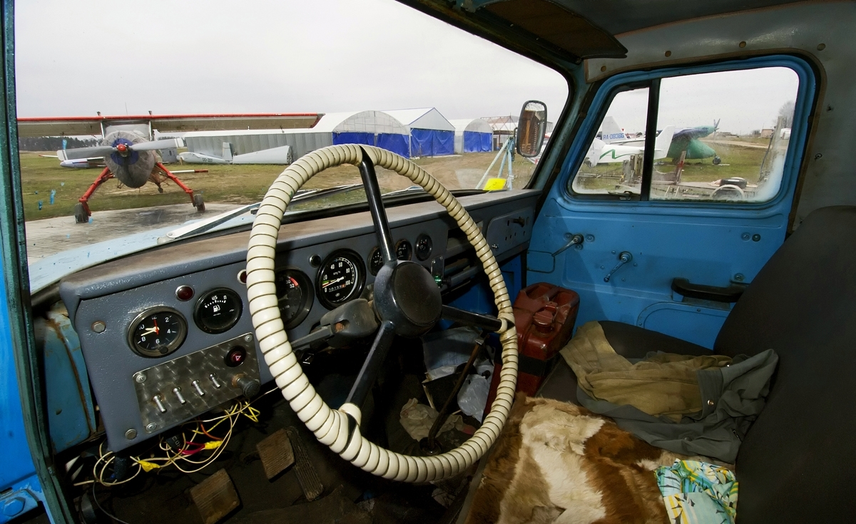 Cockpit. GAZ-52.Airfield Shevlino.